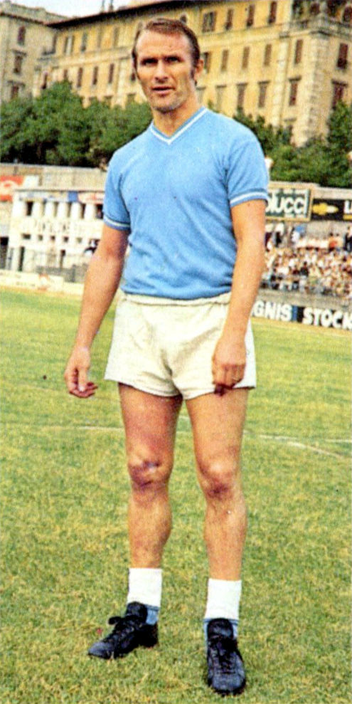 Perugia (Italy), Santa Giuliana Stadium, August 23, 1970. S.S.C. Napoli's winger Kurt Roland Hamrin during the victorius away friendly match versus A.C. Perugia (0-2).